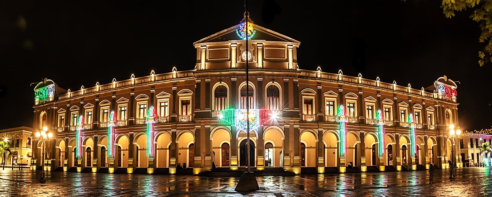 cordoba city hall